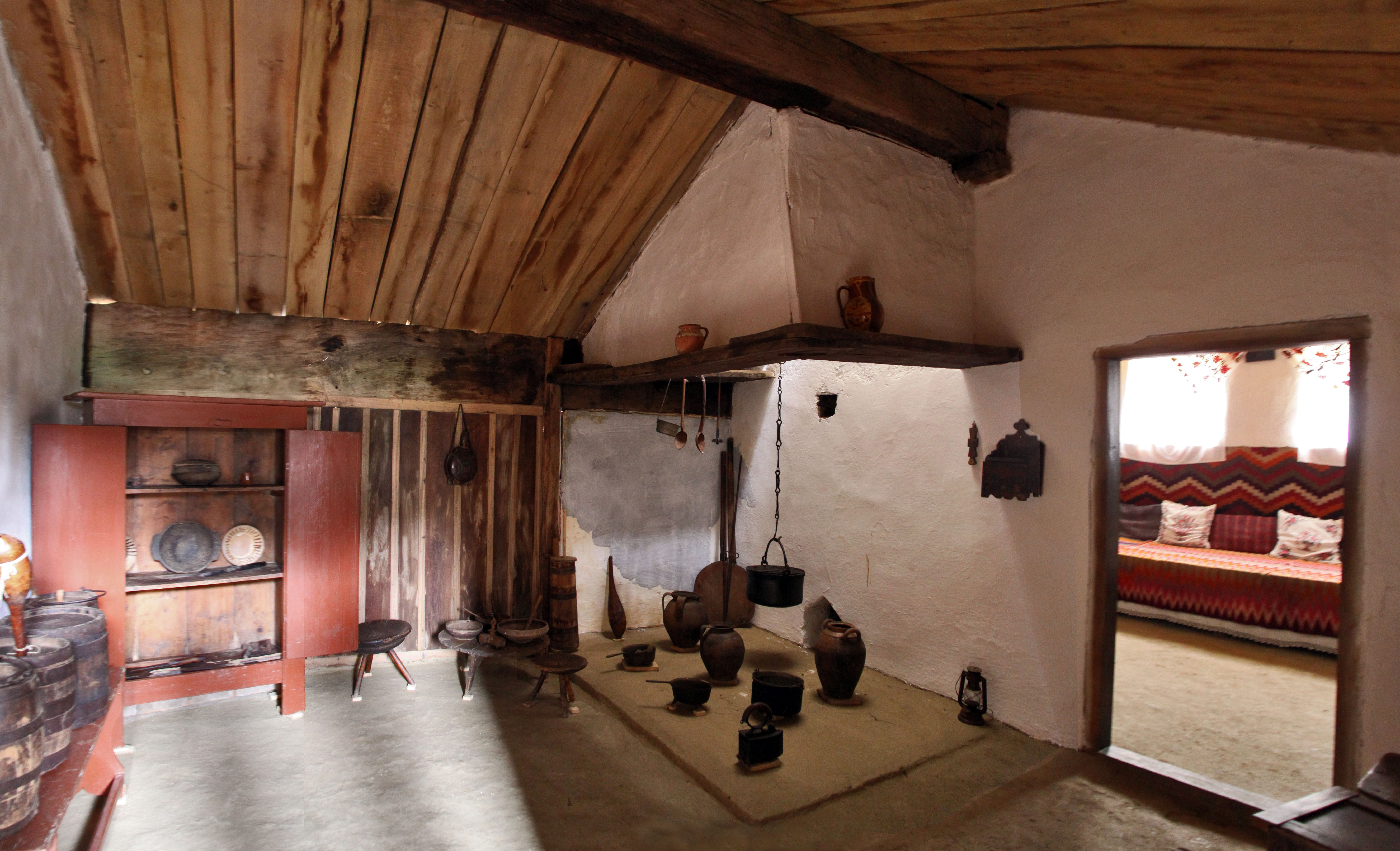 Muzeul Viticulturii şi Pomiculturii din Goleşti, Argeş, Romania: bordei from Castranova-Puţuri, interior.